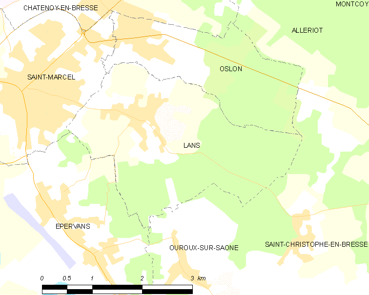 Map of French municipality